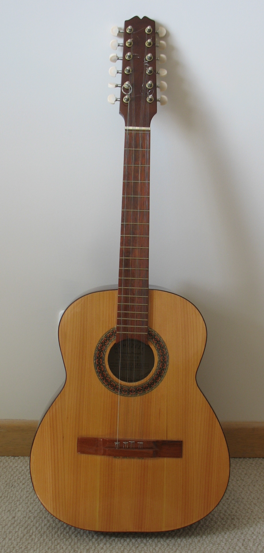 Picture of a tiple